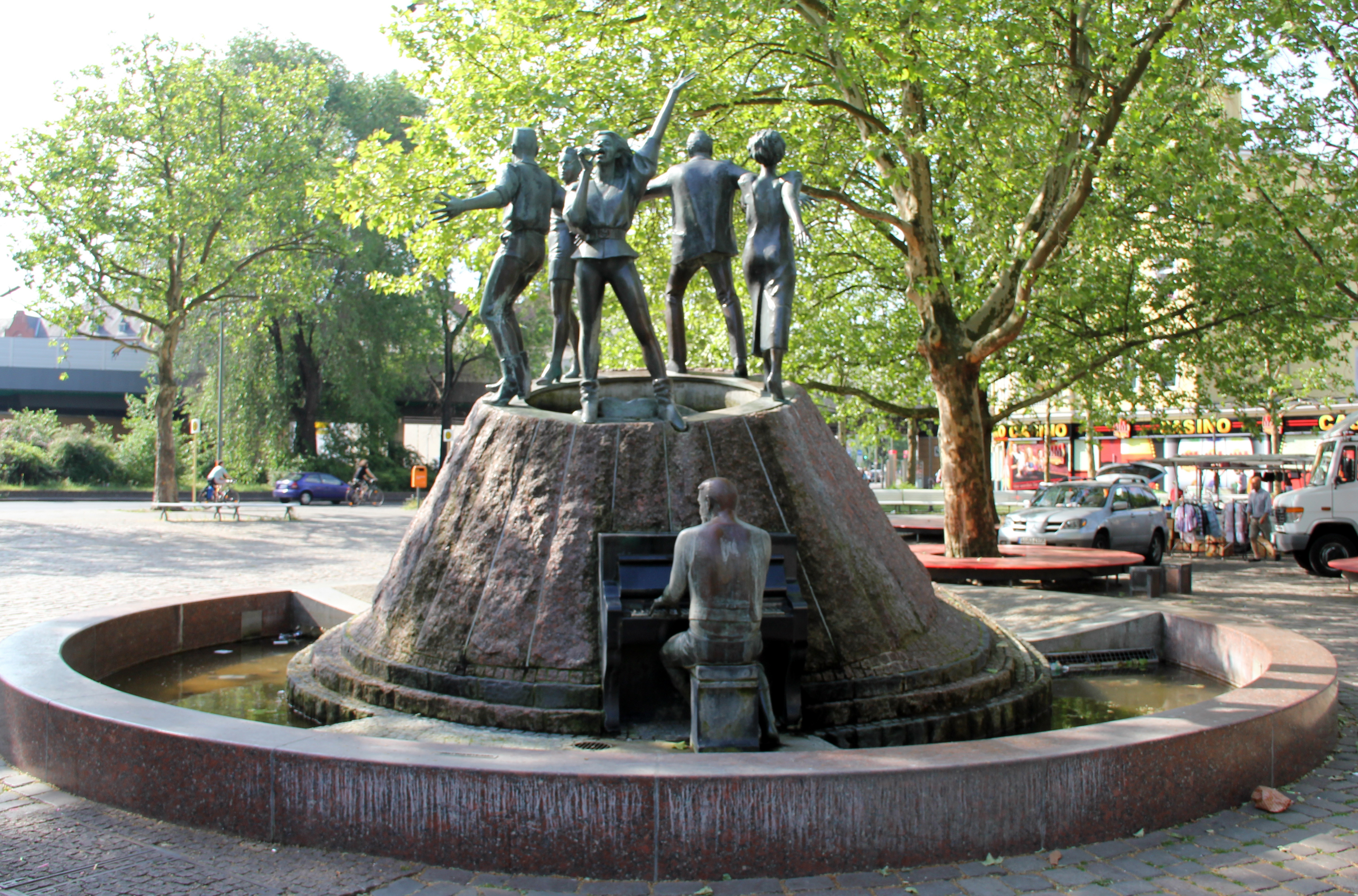 Sculpture, Tanz auf dem Vulkan by Ludmila Seefried Matejkova, 1988, Nettelbeckplatz, Berlin-Wedding, Germany